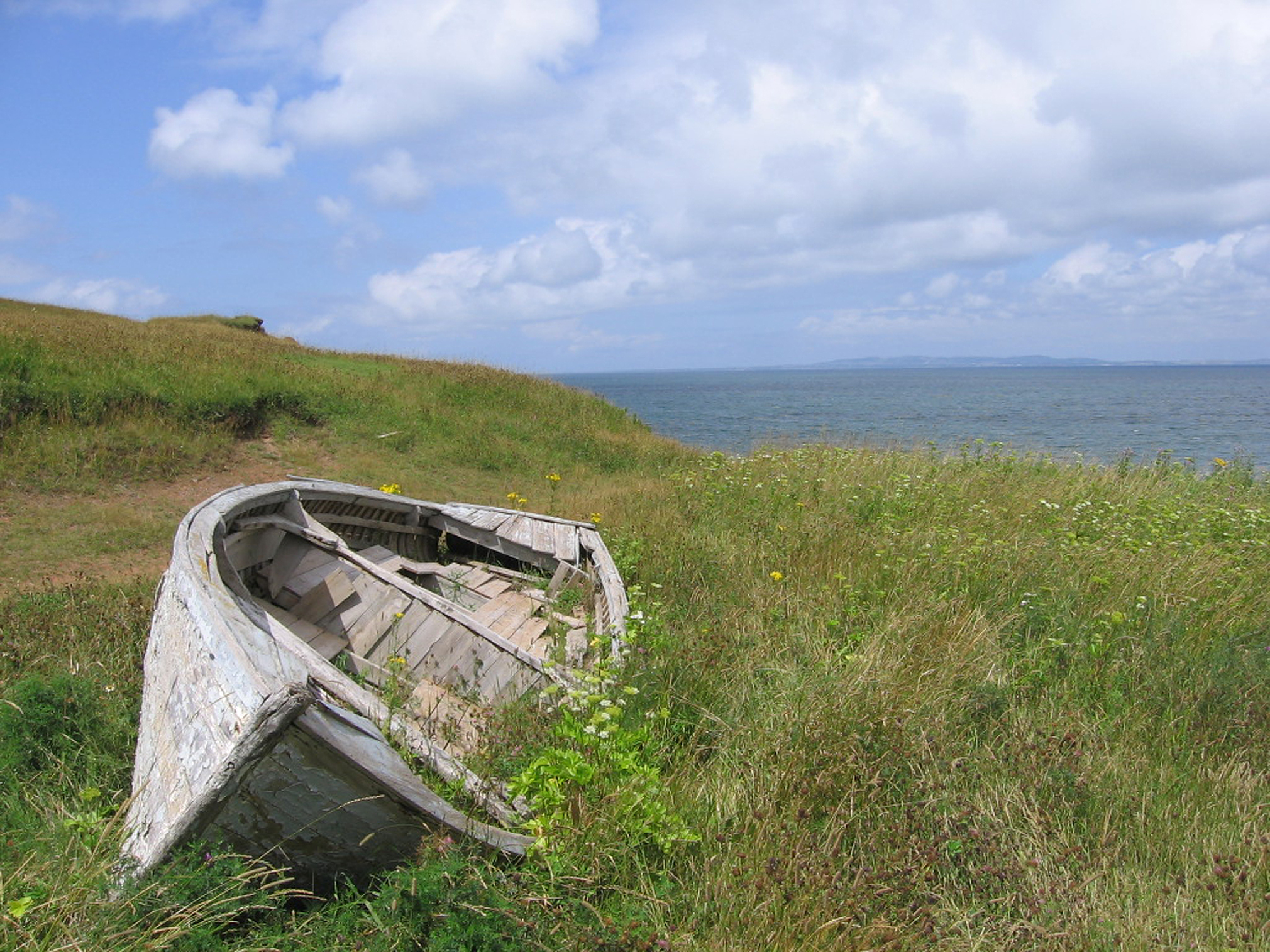 Old boat on an Island in Acadia.